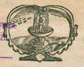 Adrien Vlacq's mark